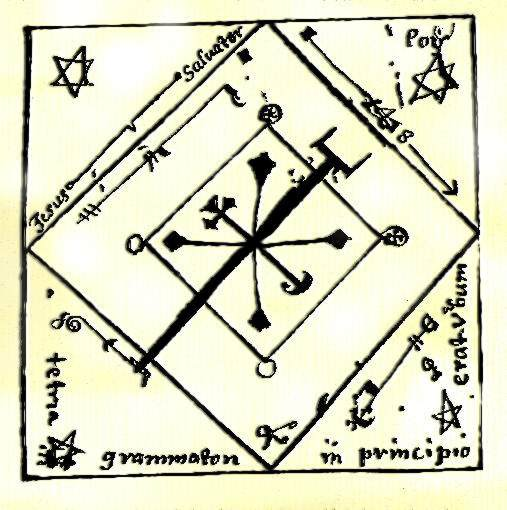 From one of the earliest manuscript of the grimoire known as Key of Solomon, entitled The Clavicle of Solomon, revealed by Ptolomy the Grecian, written in English and occasionally Latin, with orations in Latin. (Source) The Tetragrammaton contained within the Key of Solomon shows the eight-pointed cross, which consist of two separate four-pointed crosses that are superimposed. The text "Jesus Salvator" (Jesus the Savior) connects the eight-pointed cross with the savior of the World. The Tetragrammaton marks the four letters that spell the name of God "IHVH" (Jehovah). The tilted square within a square is another way to express the eight-pointed cross. When the diagonals of the outer and inner square that touches the sides of the outer square are drawn, an eight-pointed cross emerges. (Source)